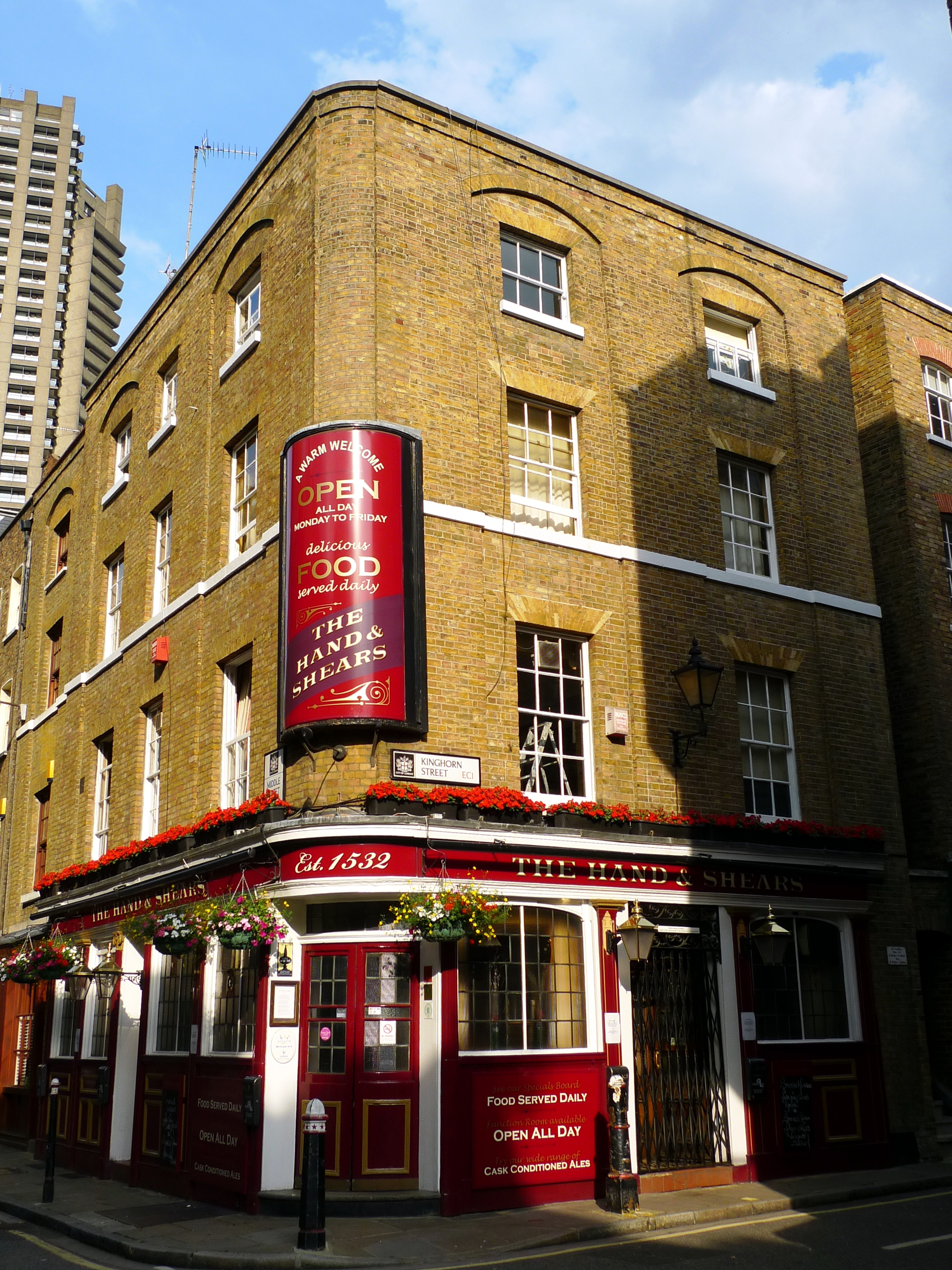 Attractive pub hidden away behind Smithfield, on Cloth Fair. Address: 1 Middle Street, Cloth Fair. Owner: Courage (former). Links: London Pubology